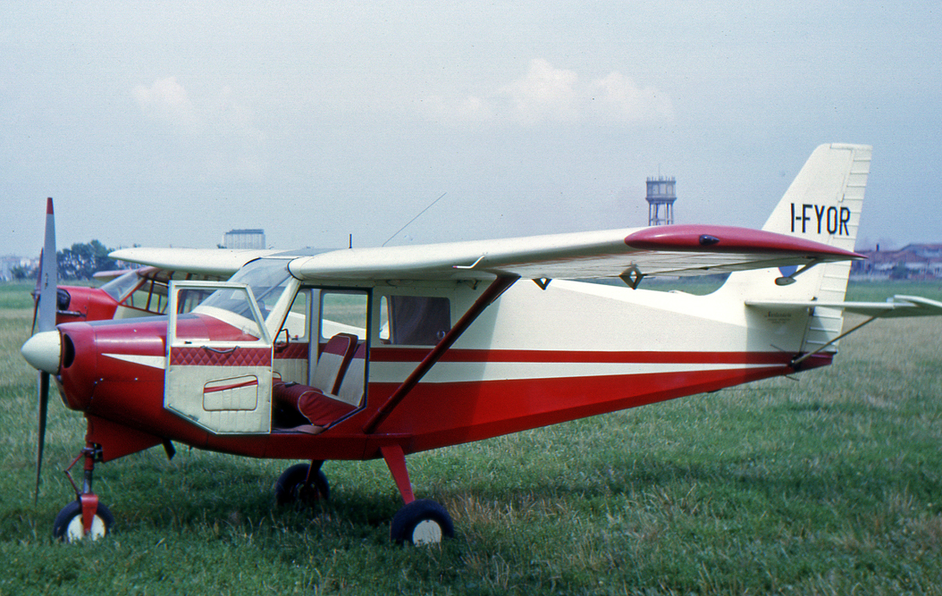 Partenavia P57 Fachiro IIF I-FYOR at Milan Bresso airport